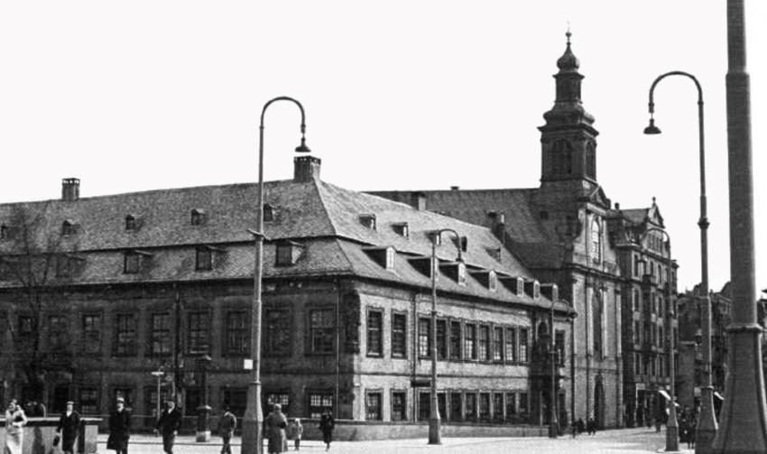 House and Church of the Teutonic Order in Frankfurt, 1920ies